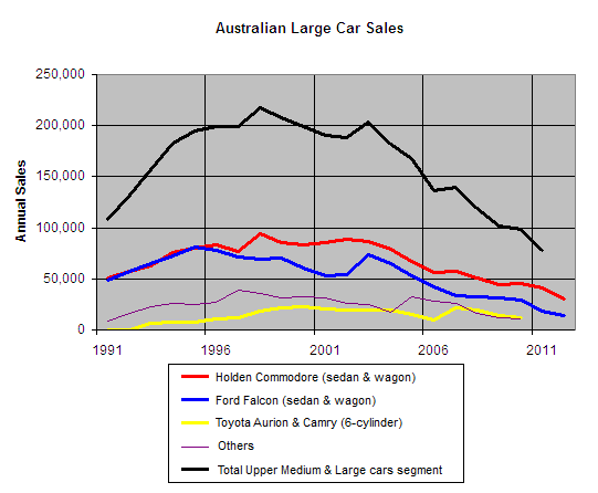 Graph of large car sales and the 3 main domestic manufacturers in that segment.